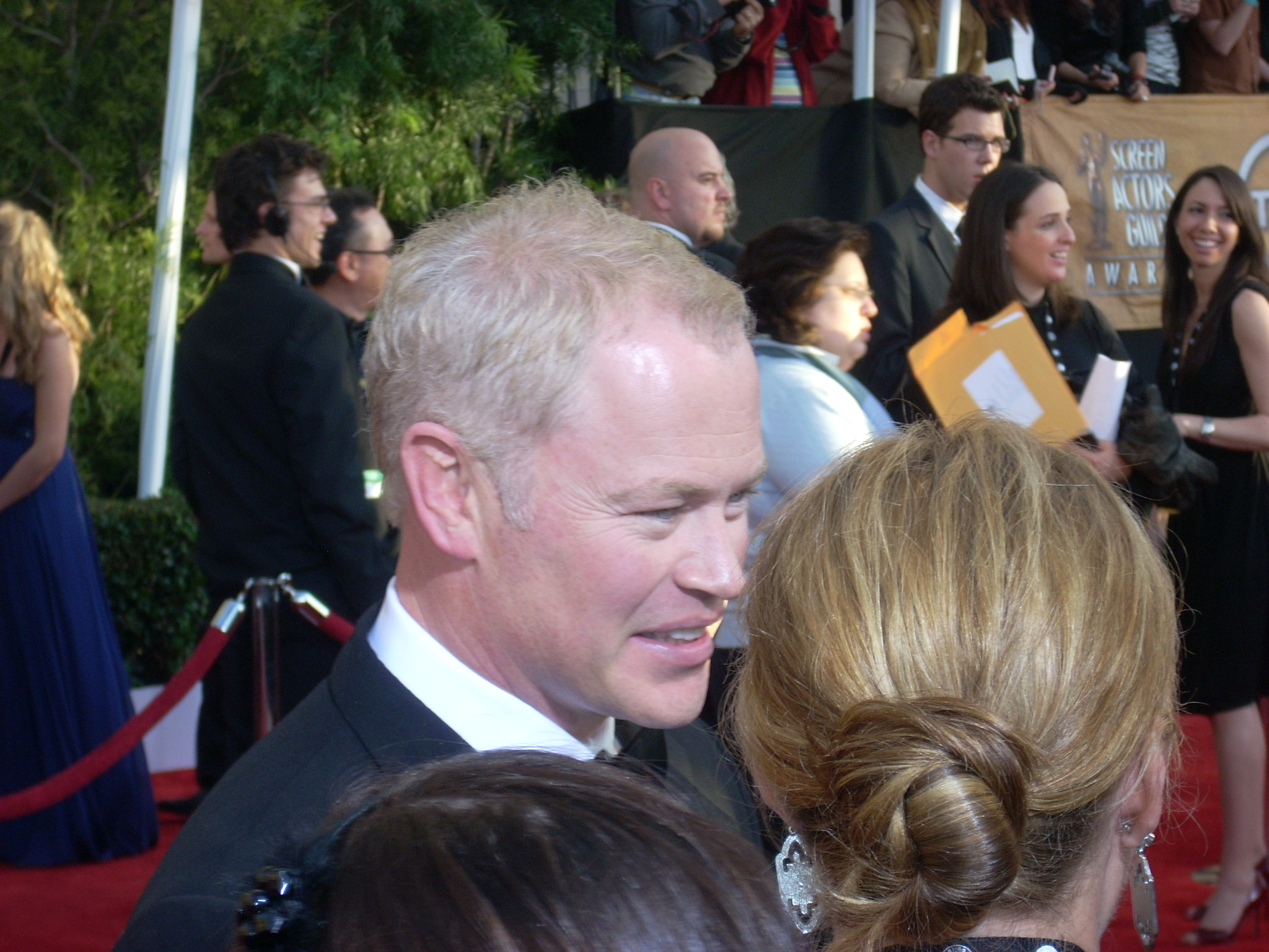 Actor Neal McDonough, star "Desperate Hausewives", at the 15th Screen Actors Guild Awards